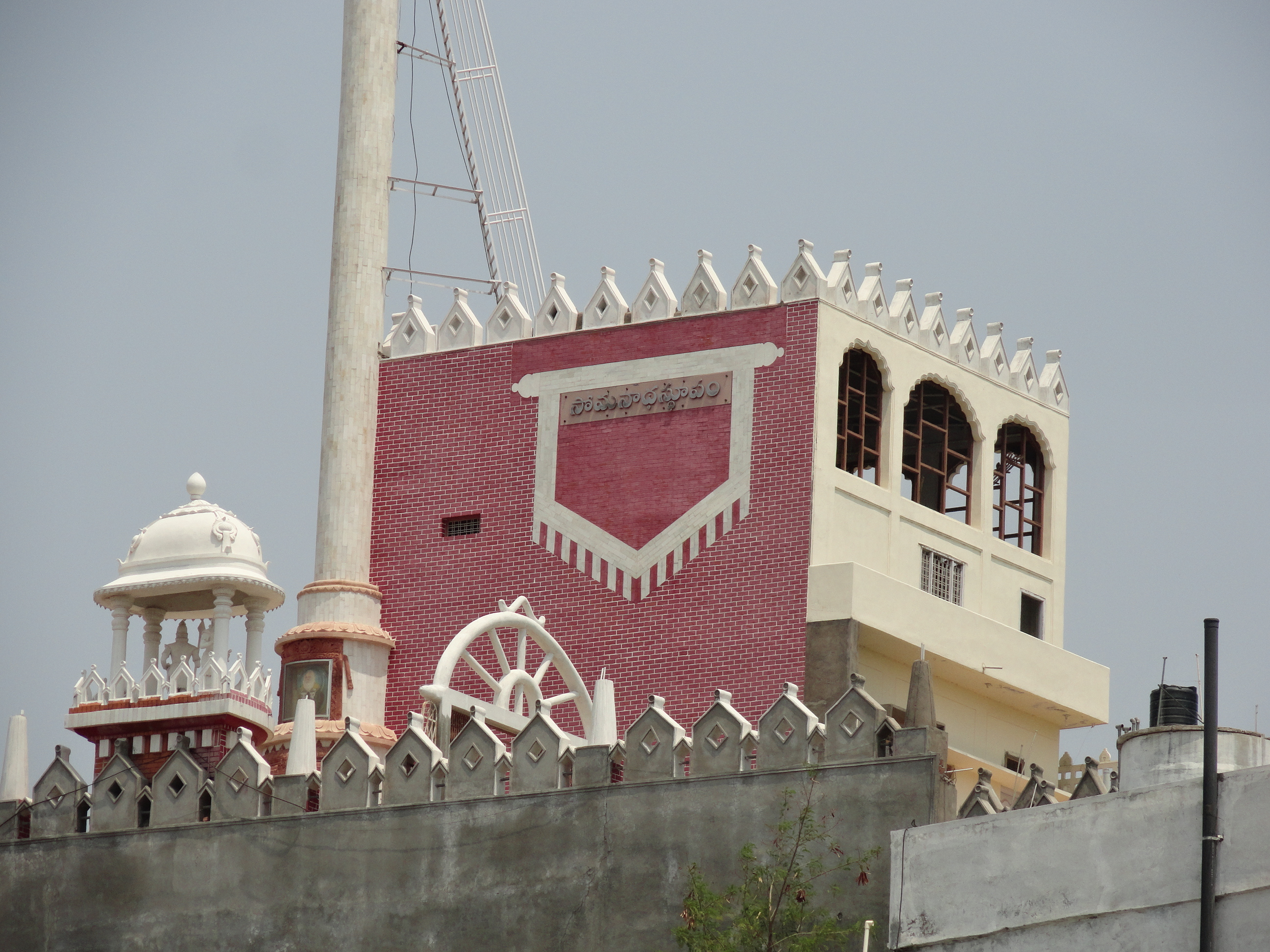 Somanath xEtram: picture taken at Vanastalipuram of Hyderabad.